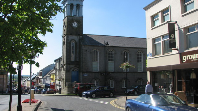 Ballymoney Town Clock and masonic Hall Erected in 1775 by the 6th.Earl of Antrim this building served as Market House,Court House,Town Hall,place of Worship and school.Following the 1798 rebellion ,local United Irishmen were hanged from gallows on the Clock tower.